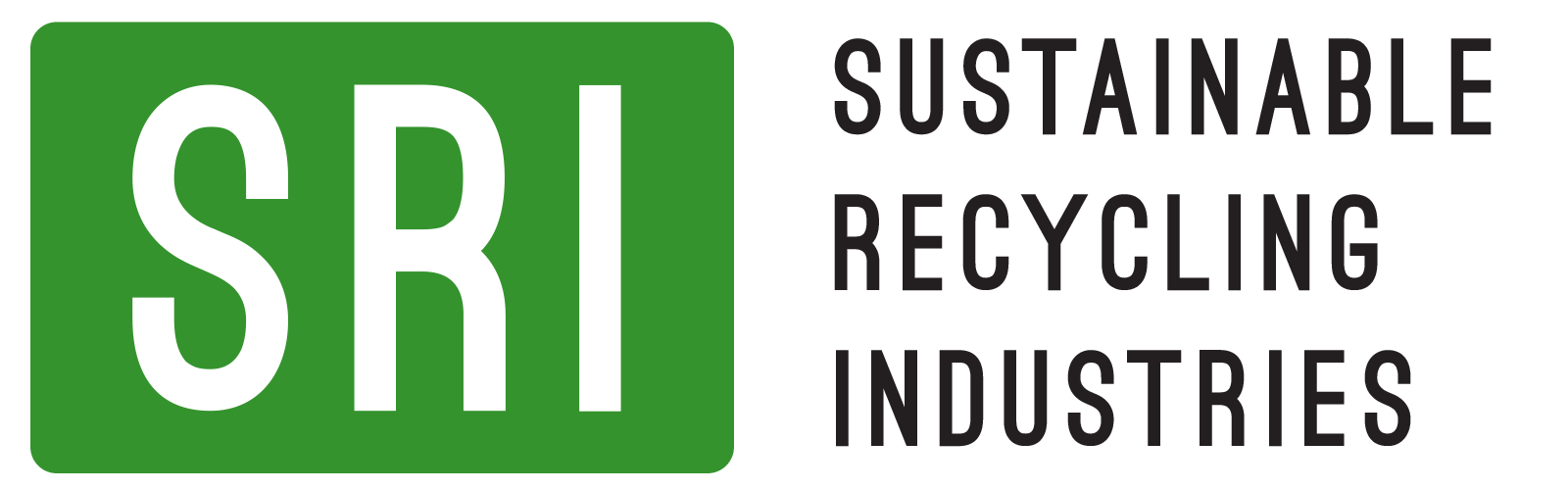 This image depicts the logo of the Sustainable Recycling Industries which builds capacity in e-waste management in developing countries